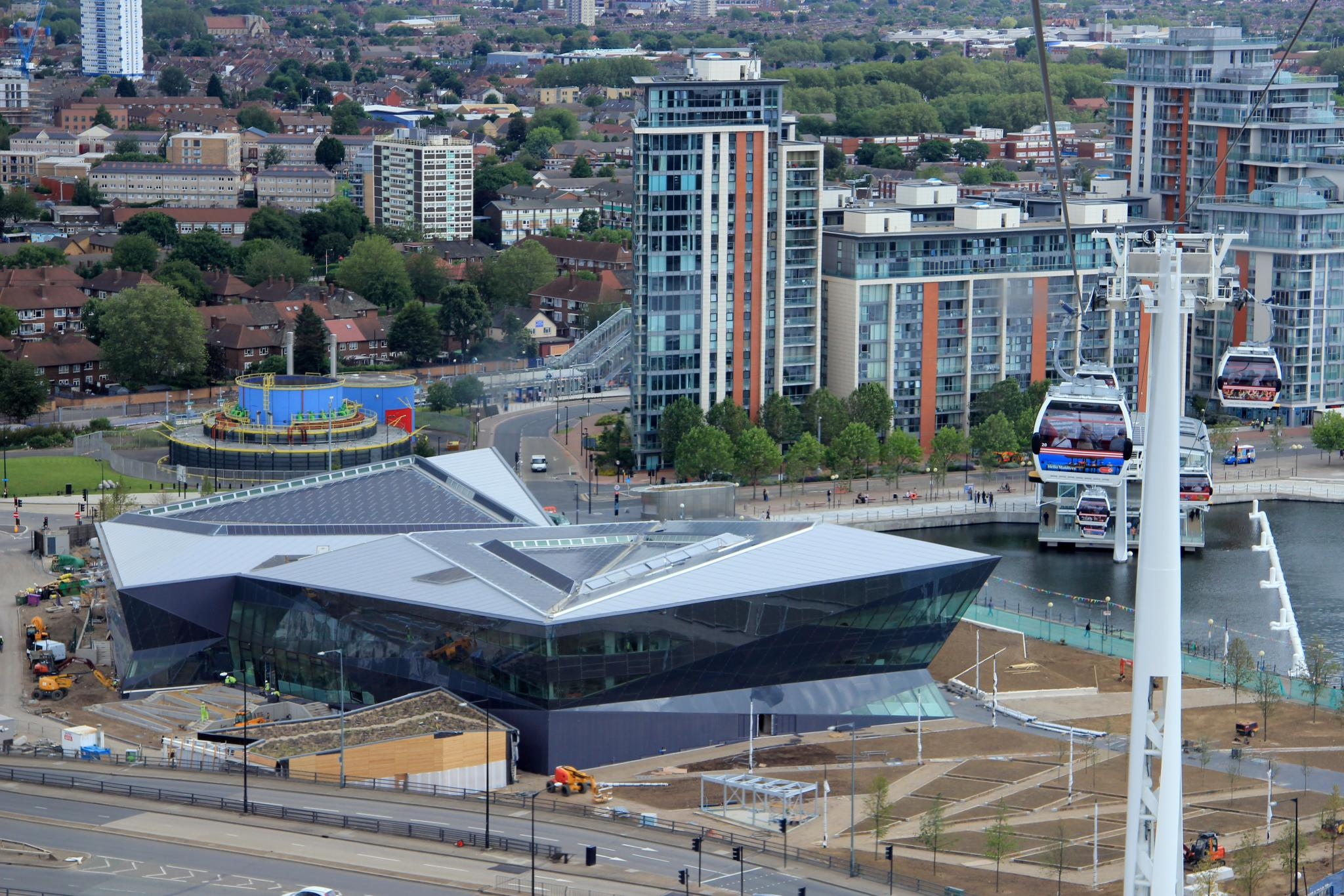 The new Thames cable car, spanning the river, opened to the public on 28th June 2012. The Emirates Air Line links the O2 Arena in Greenwich, south-east London, with the ExCel exhibition centre at the Royal Docks in east London. The service can carry 2,500 people an hour. A single adult fare on the pay-as-you-go Oyster card will cost £3.20 while the cash fare is £4.30. But the fares are not included in travelcards or Oyster capping. The service will operate through the week from 07:00 until 21:00. The gates will open an hour later on Saturdays while the service will run from 09:00 on Sundays. Passengers will also be able to make a non-stop round trip on the cable car, with views of the City, Canary Wharf, the Thames Barrier and the Olympic Park, at a cost of £6.40 with Oyster. But Transport for London said a one-way journey at peak time will be between four and five minutes long, but off-peak the same journey will last about 10 minutes. The Dubai-based airline Emirates is sponsoring the cable car for 10 years at a cost of £36m. The total cost of the project is about £60m, £45m of which went towards building it. Mayor of London Boris Johnson called it a "stunning addition to London's transport network" and a "must-see destination in its own right". "We said we could deliver this travel link in quick time, and today we have shown that this city is capable of attracting serious investment to deliver world class infrastructure. As the world's eyes focus on our city, I can think of no better message to send out across the globe."